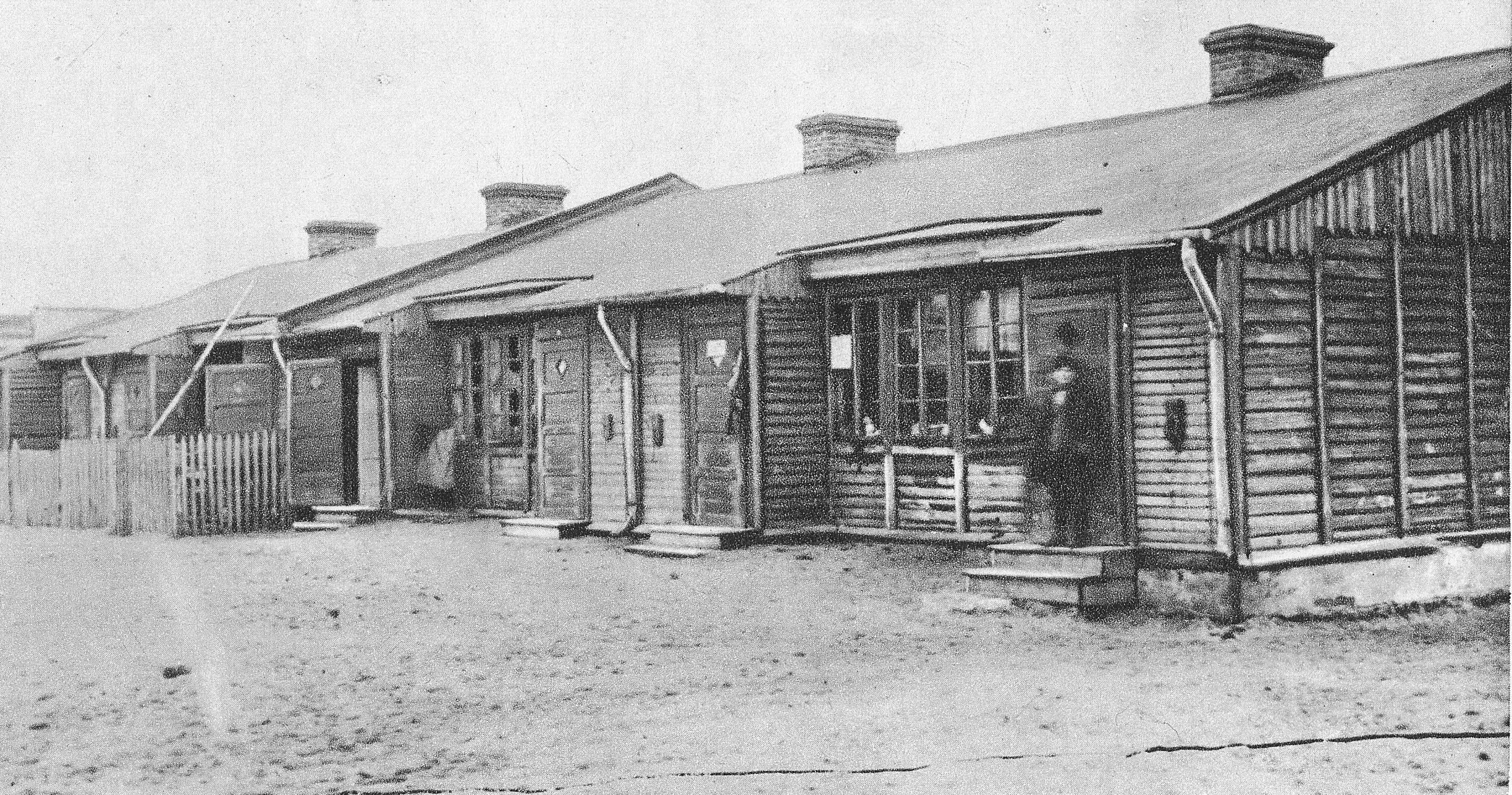 Shacks in Annopol district in Warsaw